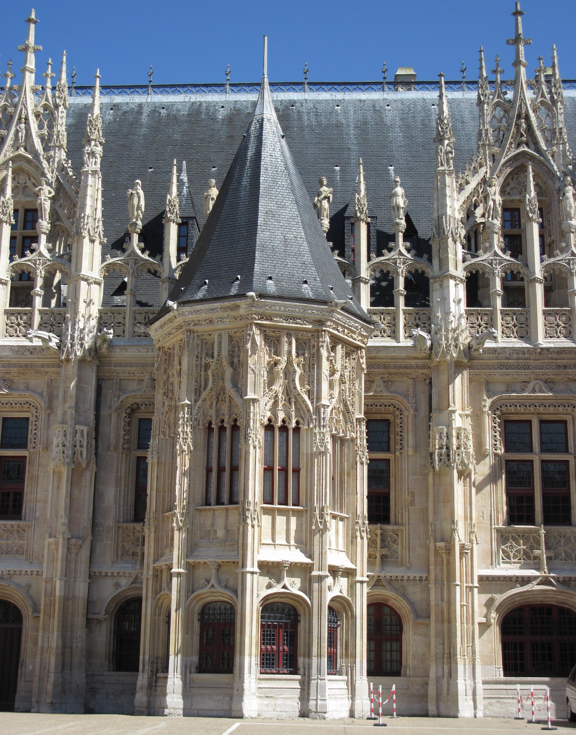 Law courts, Rouen, August 2009